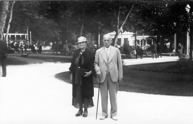 1930 Sonia and Mendel Henkin Carlsbad Baths